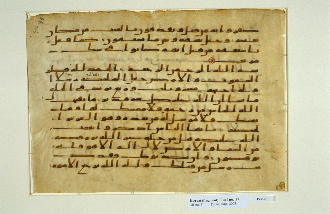 Verses 53-54 of the 34th chapter of the Qur'an entitled Surat Saba' (Sheba), as well as the first four verses of the 35th chapter of the Qur'an entitled Surat Fatir (The Originator). The text is executed in Hijazi 1 script in black ink at fifteen lines per page. This kind of script is typical of Qur'ans in the horizontal format produced during the 8th century.